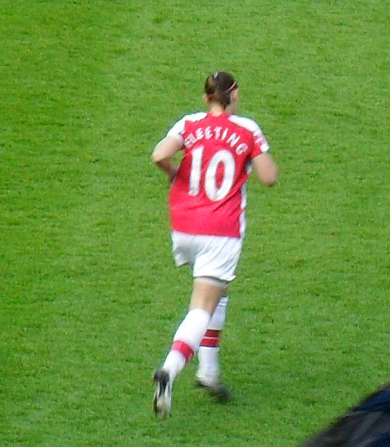 Julie Fleeting wearing her number 10 shirt for Arsenal Ladies at the 2010 FA Women's Cup final at Nottingham's City Ground.